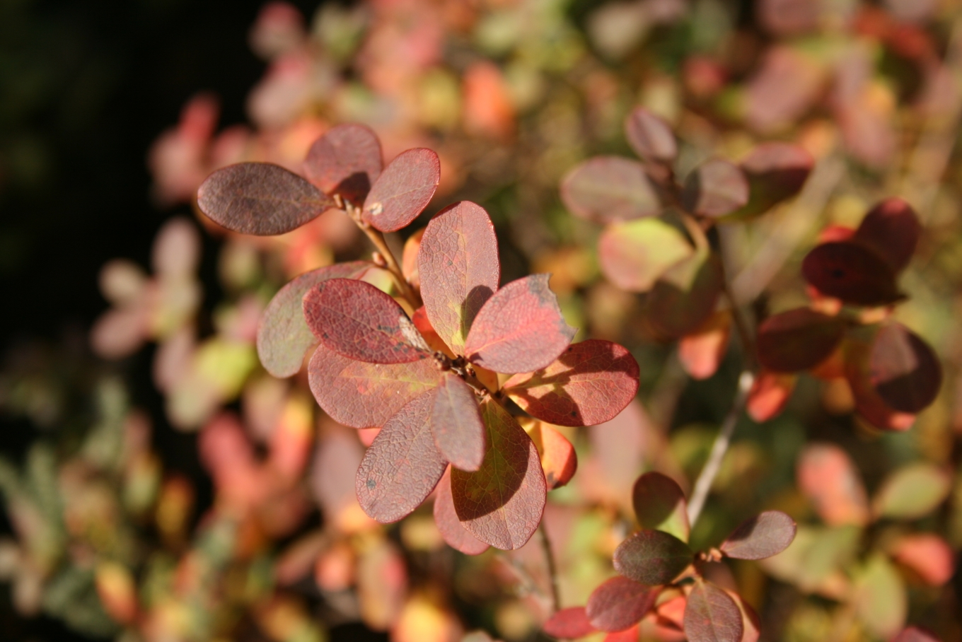 Autumn-coloured leaves of Vaccinium uliginosum near Ålbæk, Denmark.